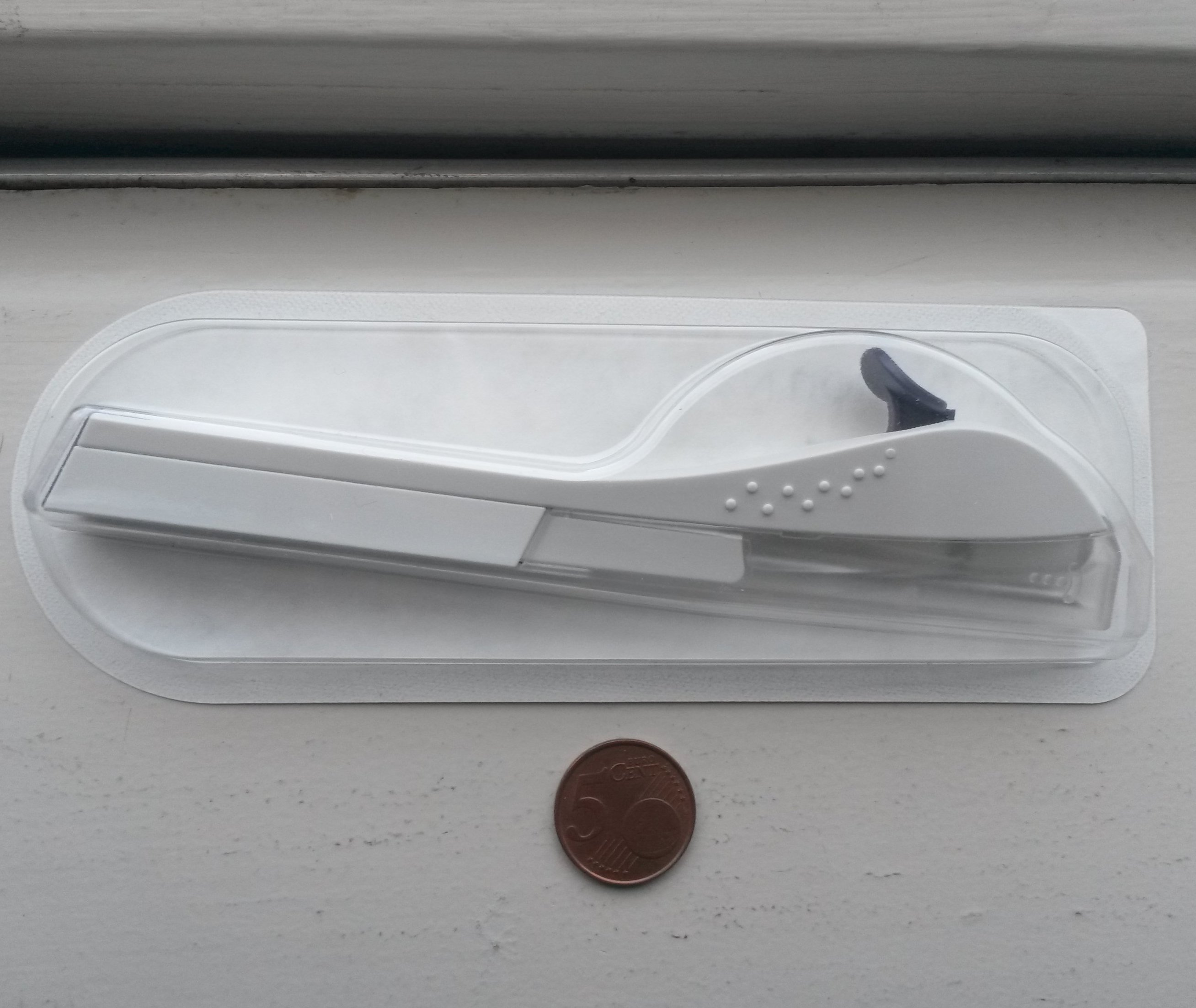 Implanon, a implant that works as a contraceptive for a long time